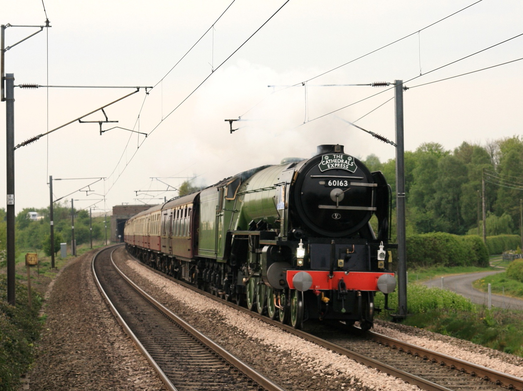 Brand new steam locomotive 60163 Tornado hauls a charter train from London Kings Cross to Edinburgh Waverley on 25 April 2009. The private trip was filmed by the BBC for a Top Gear Race, with James May a.k.a Captain Slow in a vintage Jaguar and Richard Hammond on a classic motorbike, racing Jeremy Clarkson on the train, but with the car and bike only allowed to use A roads. Tornado was booked to leave London at 07.25 BST and arrive in Edinburgh at 15.27 BST. Booked times The train carried the headboard for a Cathedrals Express journey, and barring the maroon support coach at the front, was formed from a uniform rake of nine Royal Scot blood and custard coaches. Seen here passing Sutton-on-Trent, Nottinghamshire